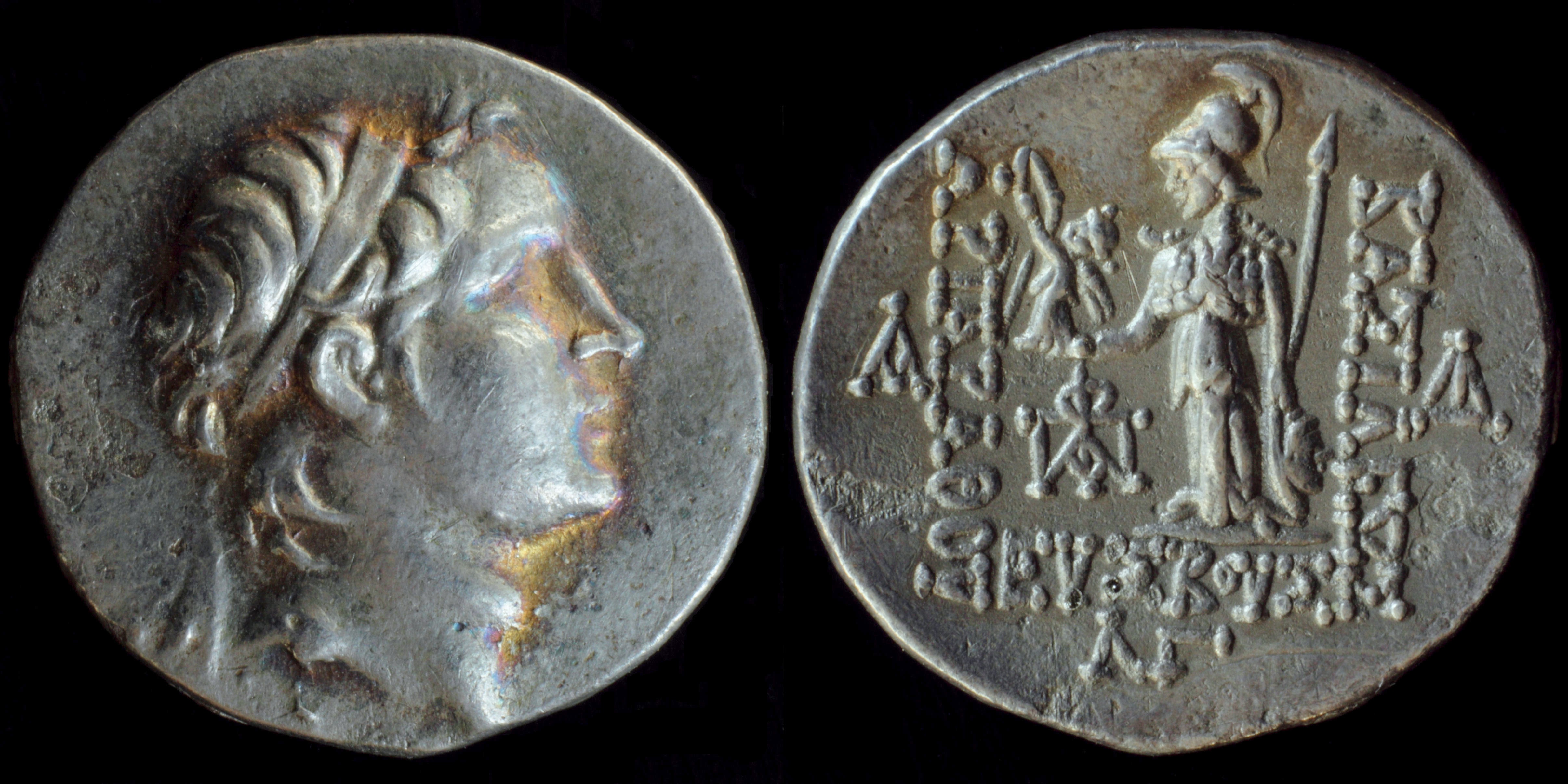 Silver drachm of Ariarathes V of Cappadocia, struck in Eusebeia 131-130 BC; ref.: Simonetta 13(var); ΛΓ in exergue is a Greek number and means 33rd year of reign